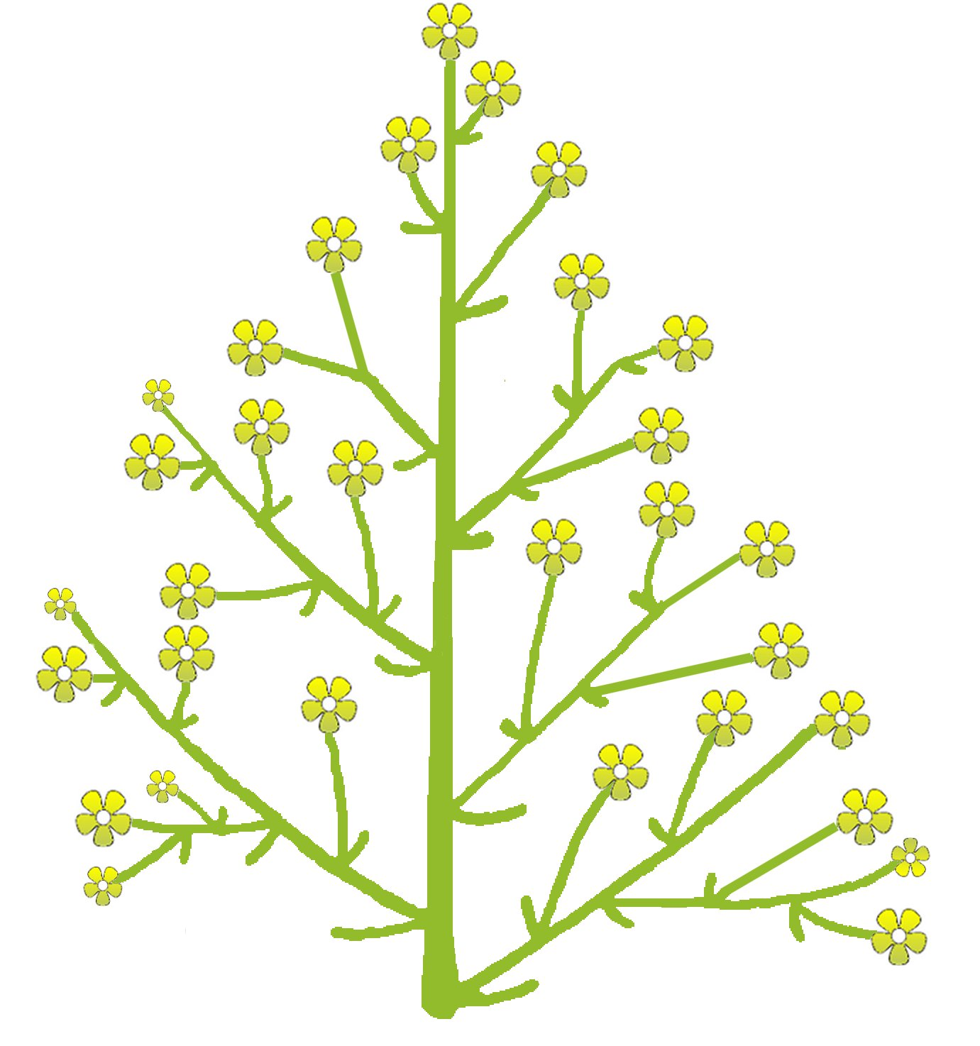 panicle